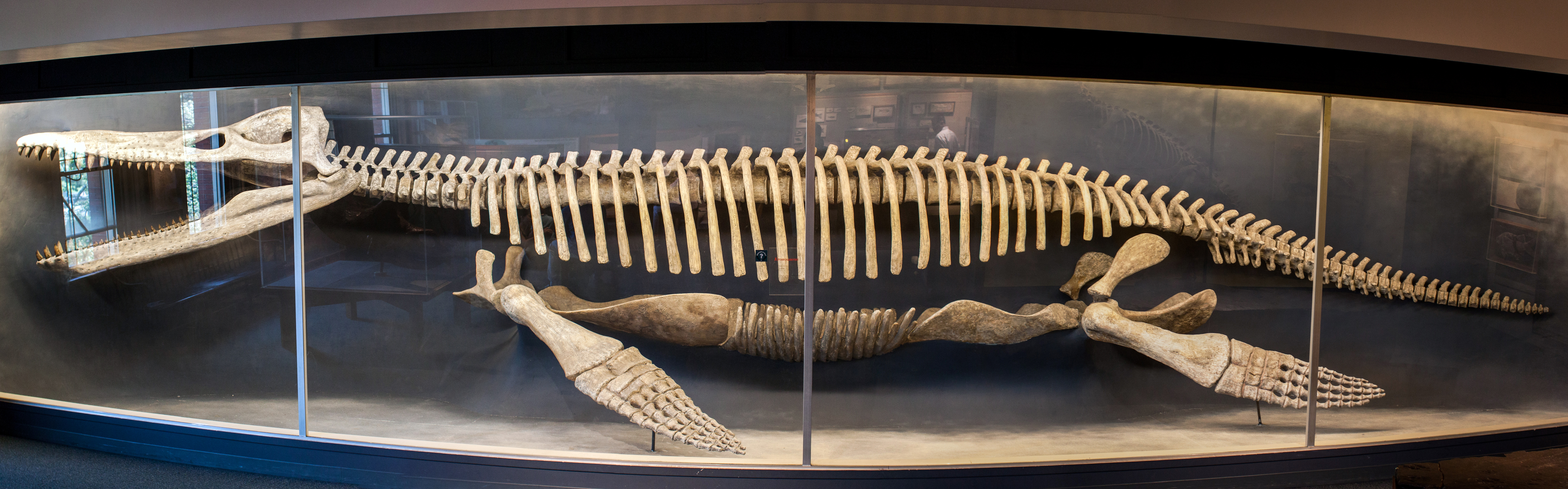 Day 217. On Saturday, we headed to the Harvard Museum of Natural History, one of my favorite museums in the area and a big hit with my son. Photos from this museum have featured in my 366 project before, on Day 49 and Day 63 . This is a 3-image panorama of the Kronosaurus fossil featured at the museum, a complete 42-foot long specimen, excavated on a Harvard expedition to Australia in 1931. I know I should have taken the time to clean up the reflections in Photoshop, but who has time for that? As it is already past midnight, this will have to do. Taken Aug 4, 2012 in Cambridge, Massachusetts, United States ¹⁄₂₅ sec at f/3.2, ISO400, no flash. Lens: EF28mm f/1.8 USM @ 28 mm